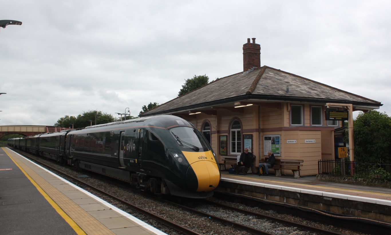 InterCity Express Train 802106 calls at Charlbury with a Great Western Railway service to London.